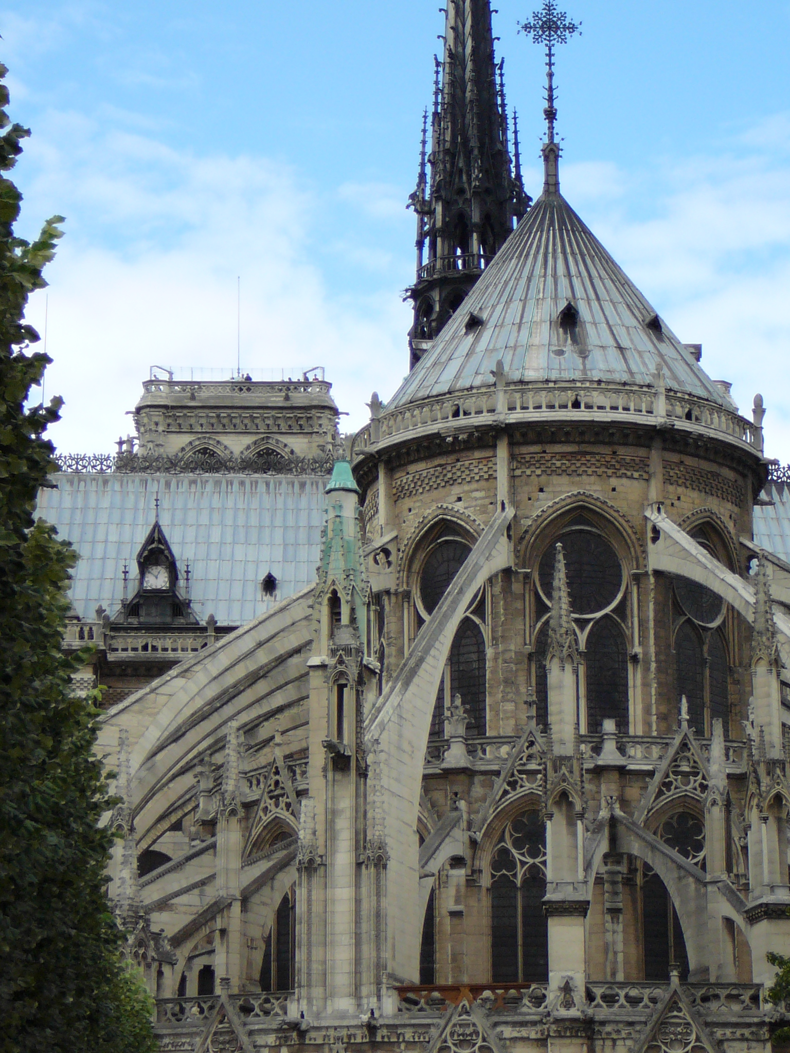 A photo of the backside of the Notre Dame de Paris